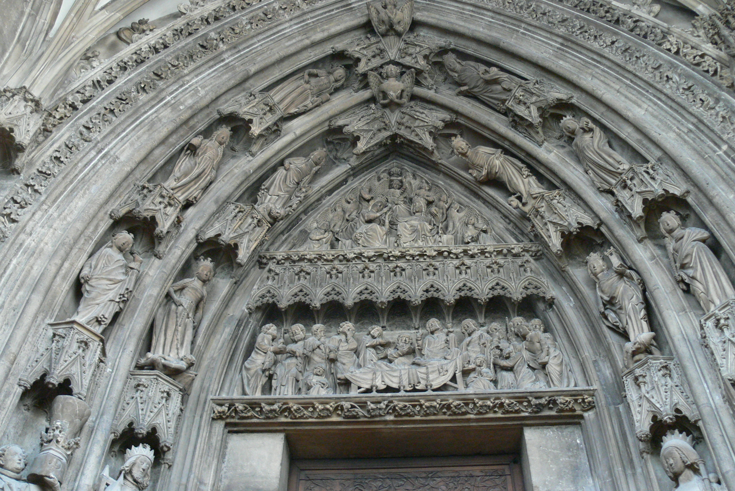 St. Stephen's Cathedral, Vienna. Bishop´s gate: Gothic tympanum with Coronation and Dormition of Virgin Mary ( 14th century ).